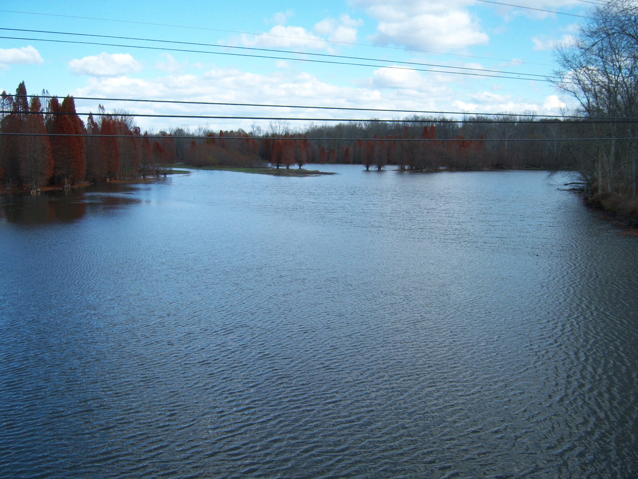 This is Abbotts Creek, NC as seen standing on Hwy 47, looking away from the main body of the lake. This is the "start" of High Rock Lake at this particular junction. Taken in the fall, 11-18-08